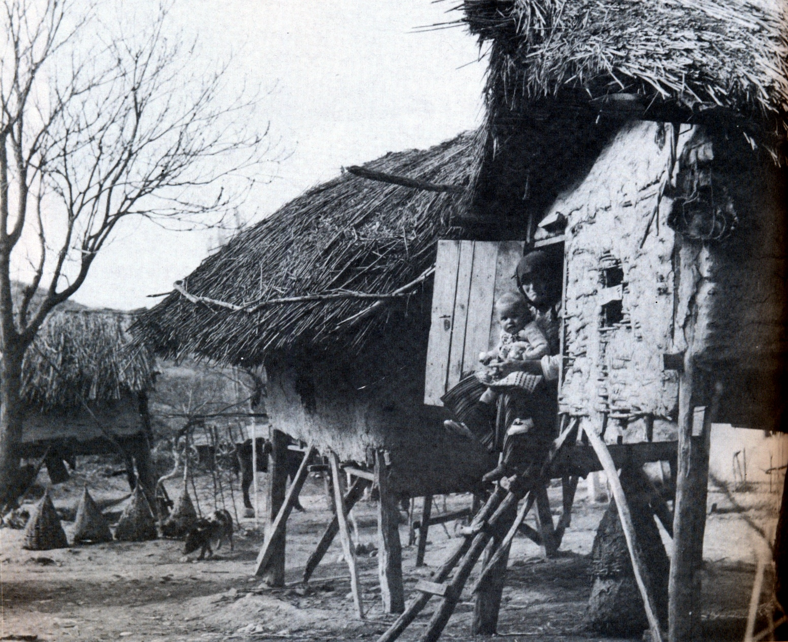 Cottages called "tronj" in the village of Taor, near Skopje, Macedonia